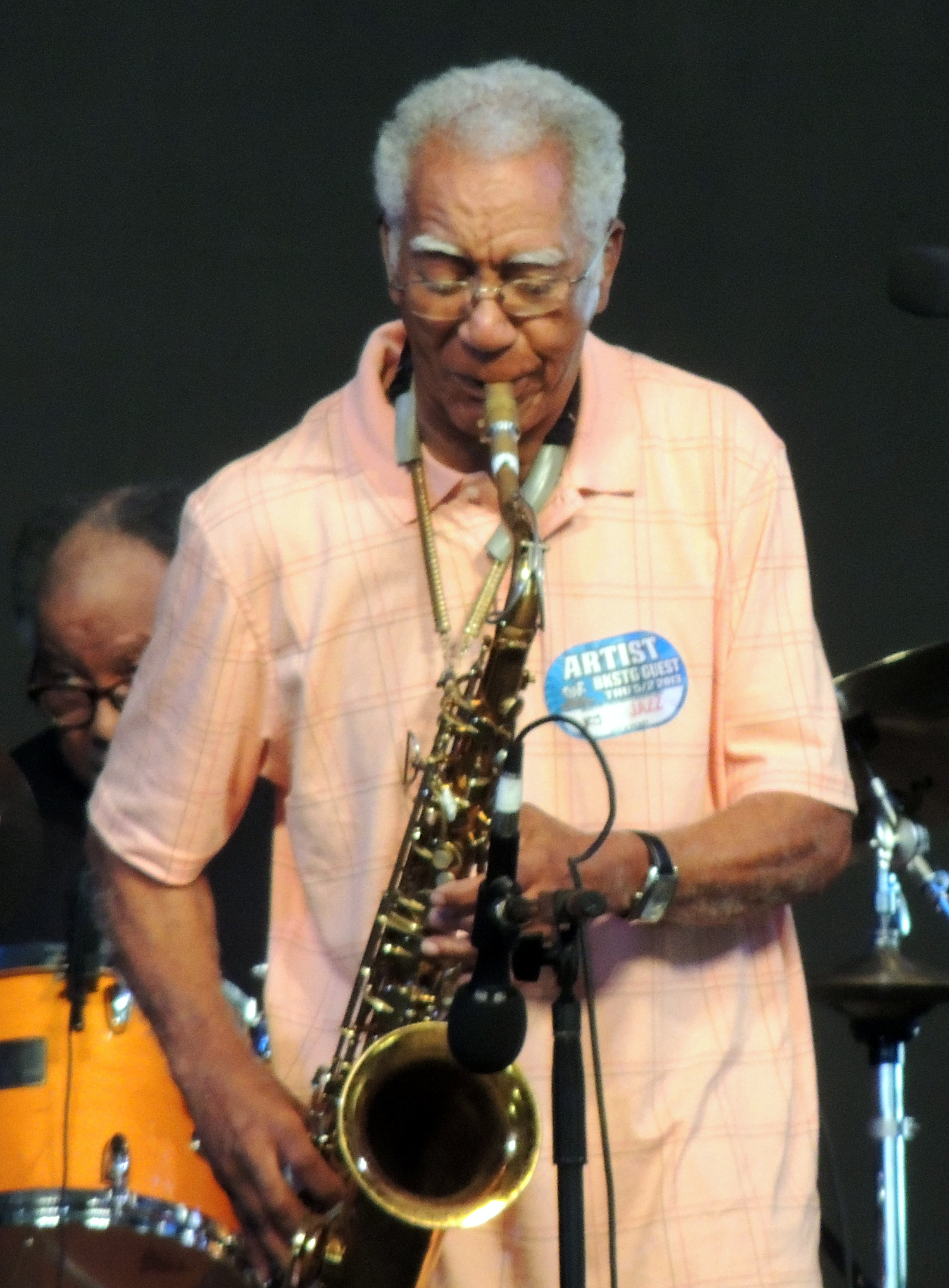 Kidd Jordan at New Orleans Jazzfest